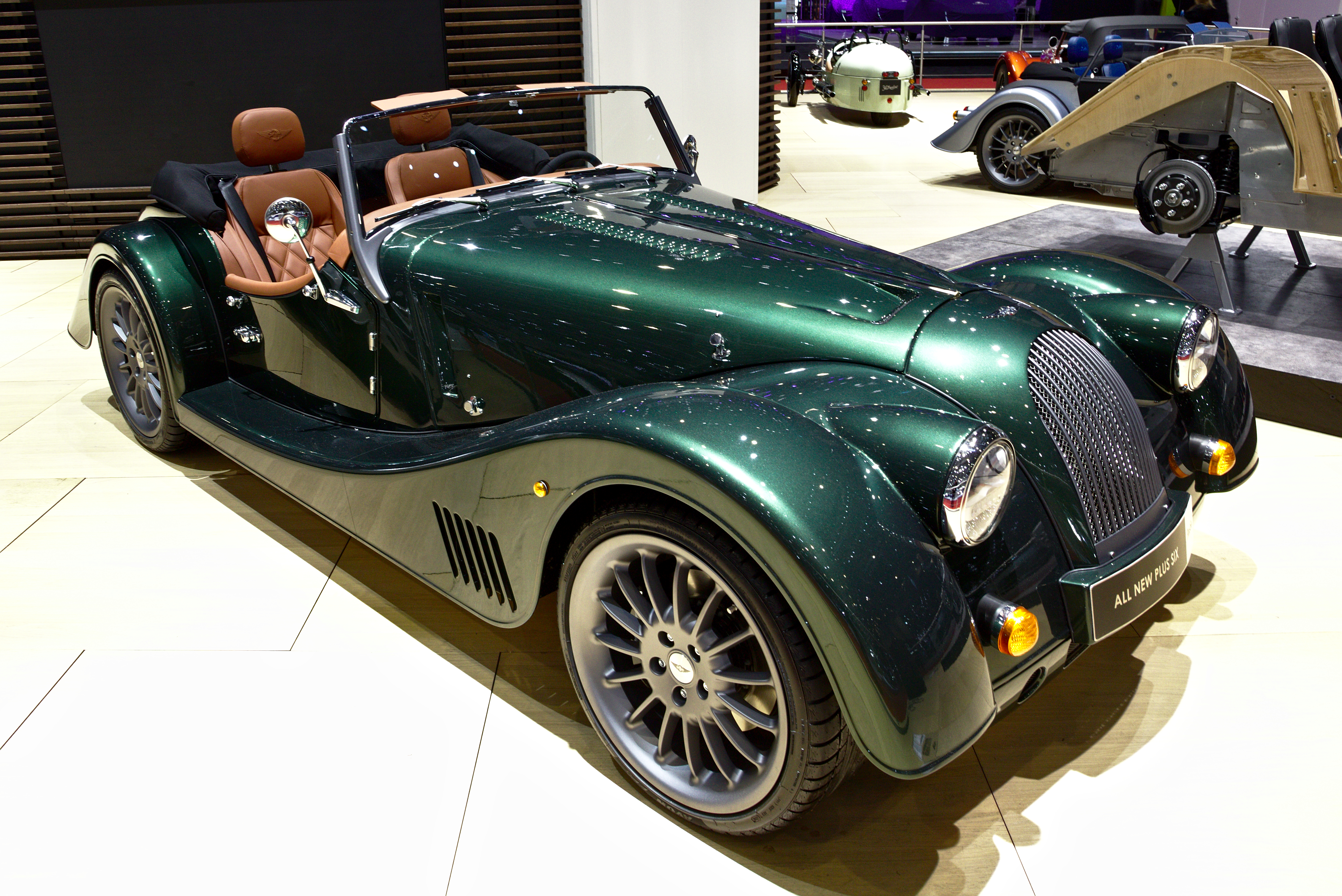 Morgan Plus 6 at Geneva Motor Show 2019